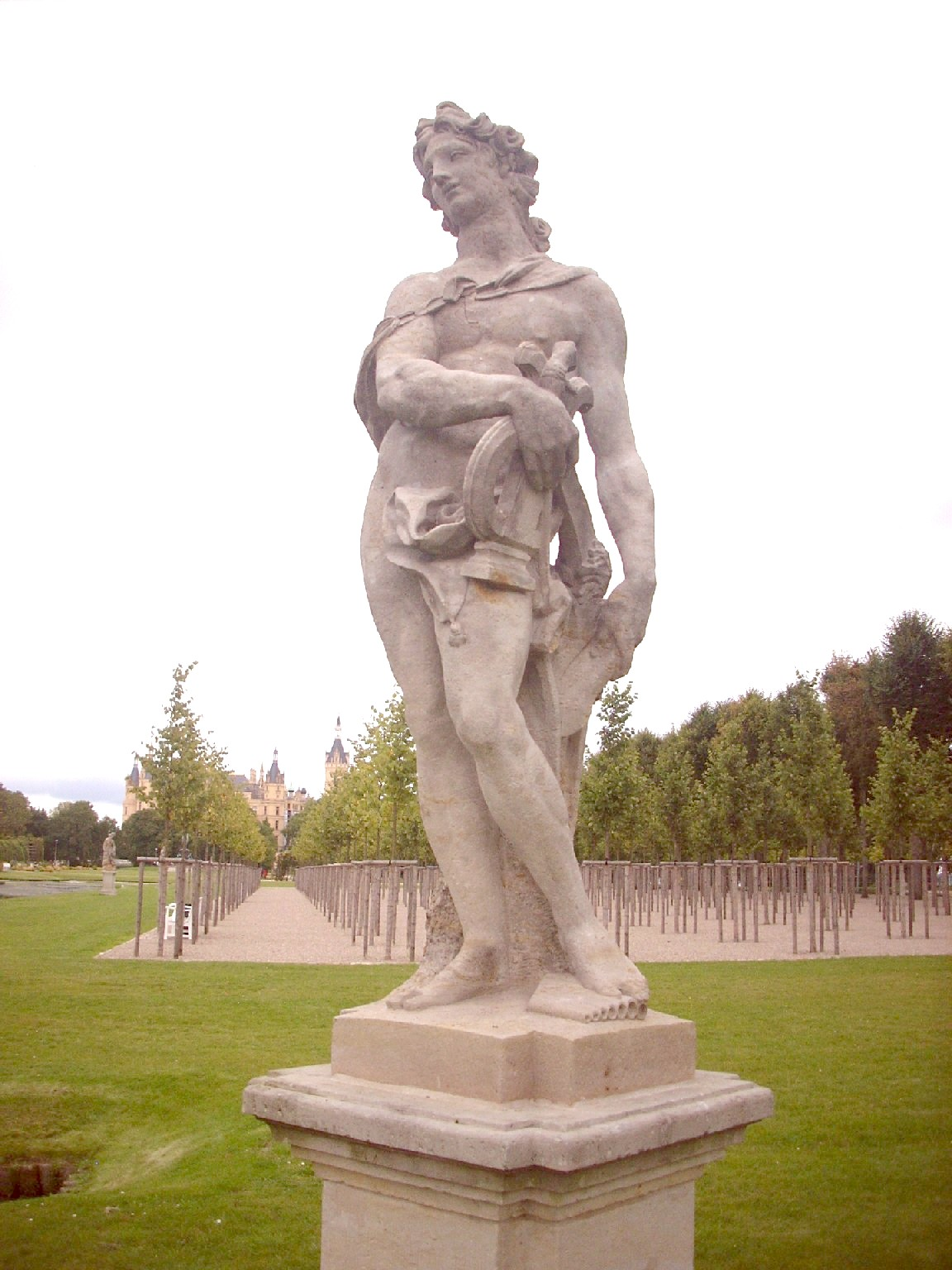 Apollon with the lyra, having defeated Pan in musical competition, with Pan's flute under his foot; sculpture in Schwerin, Schlossgarten